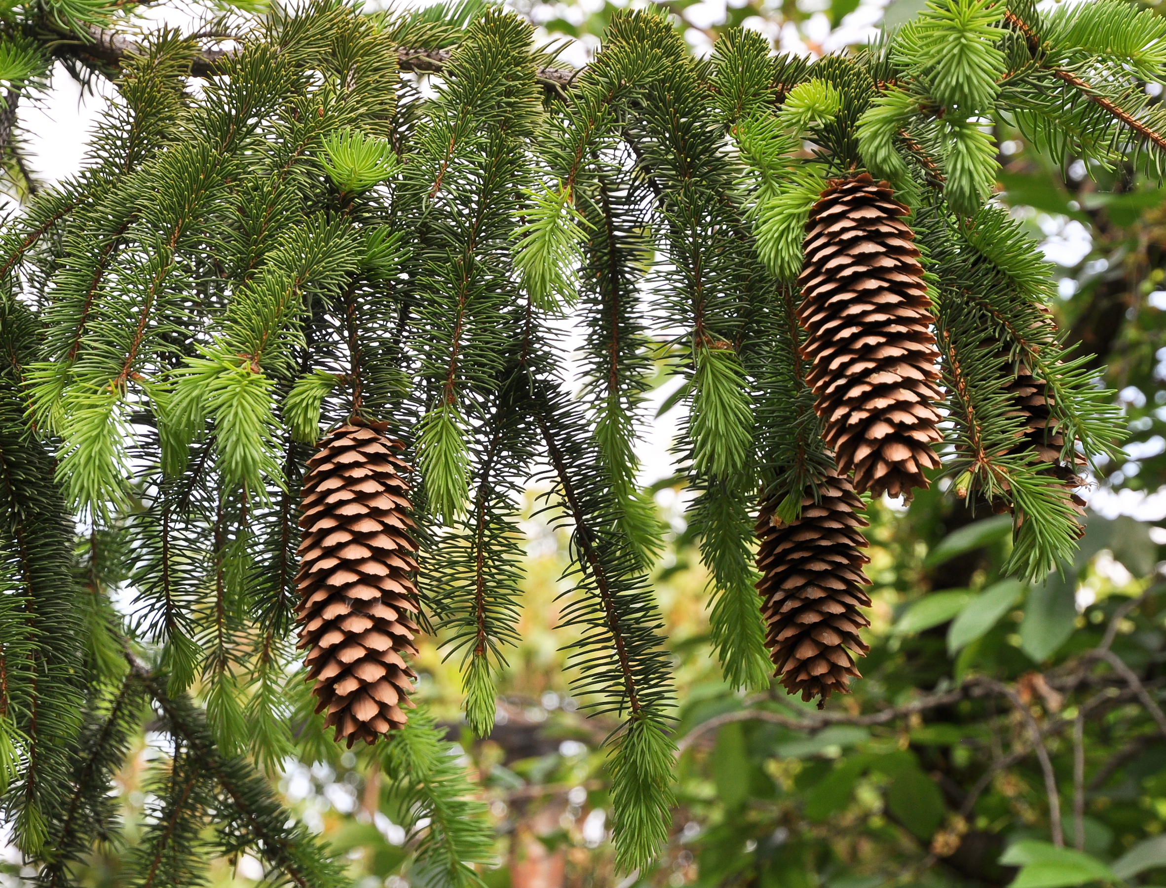 Norway Spruce Picea abies cones.